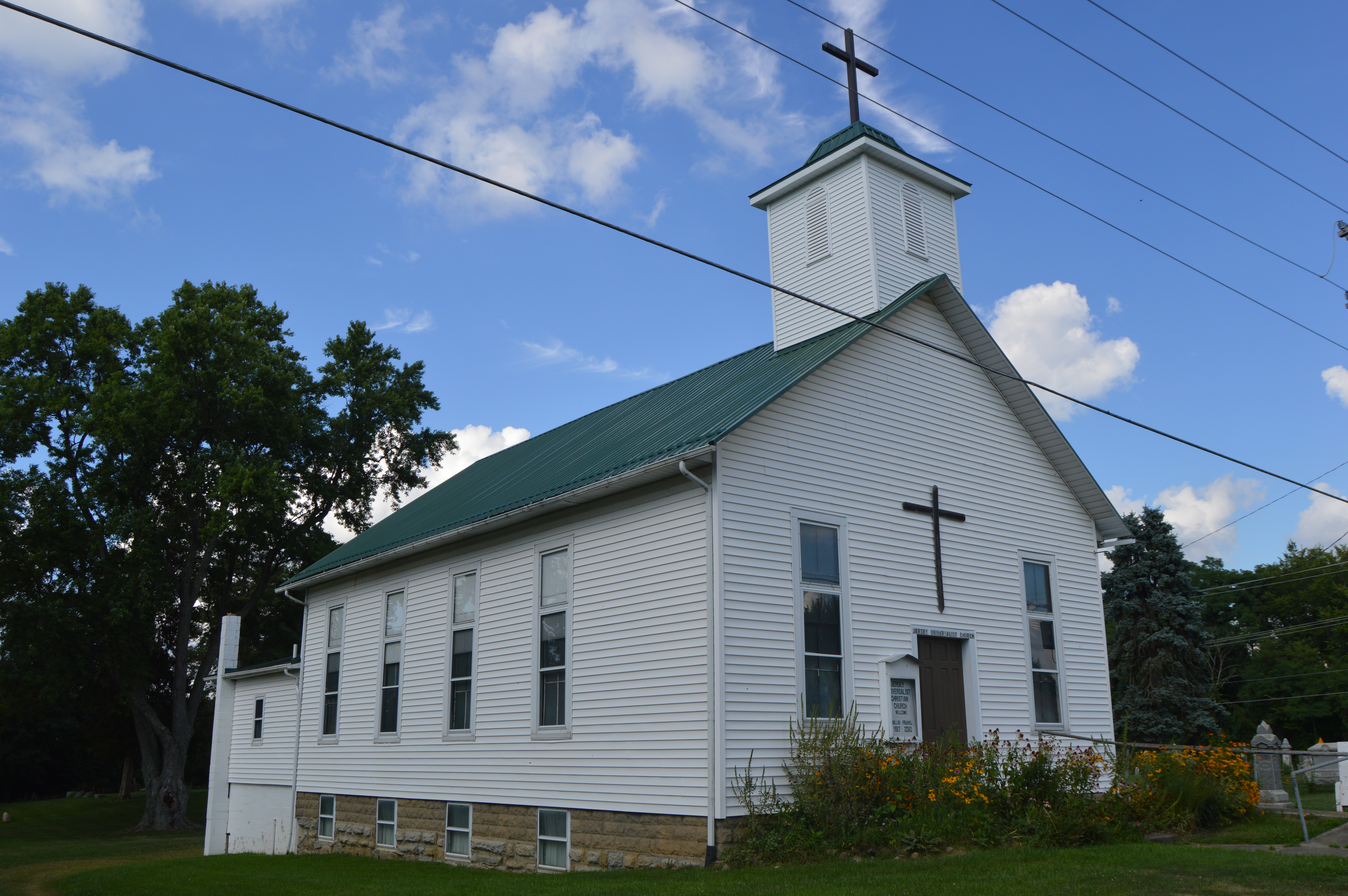 Front and western side of the Jersey Universalist Church, located on Worthington Road in western Jersey Township, Licking County, Ohio, United States.